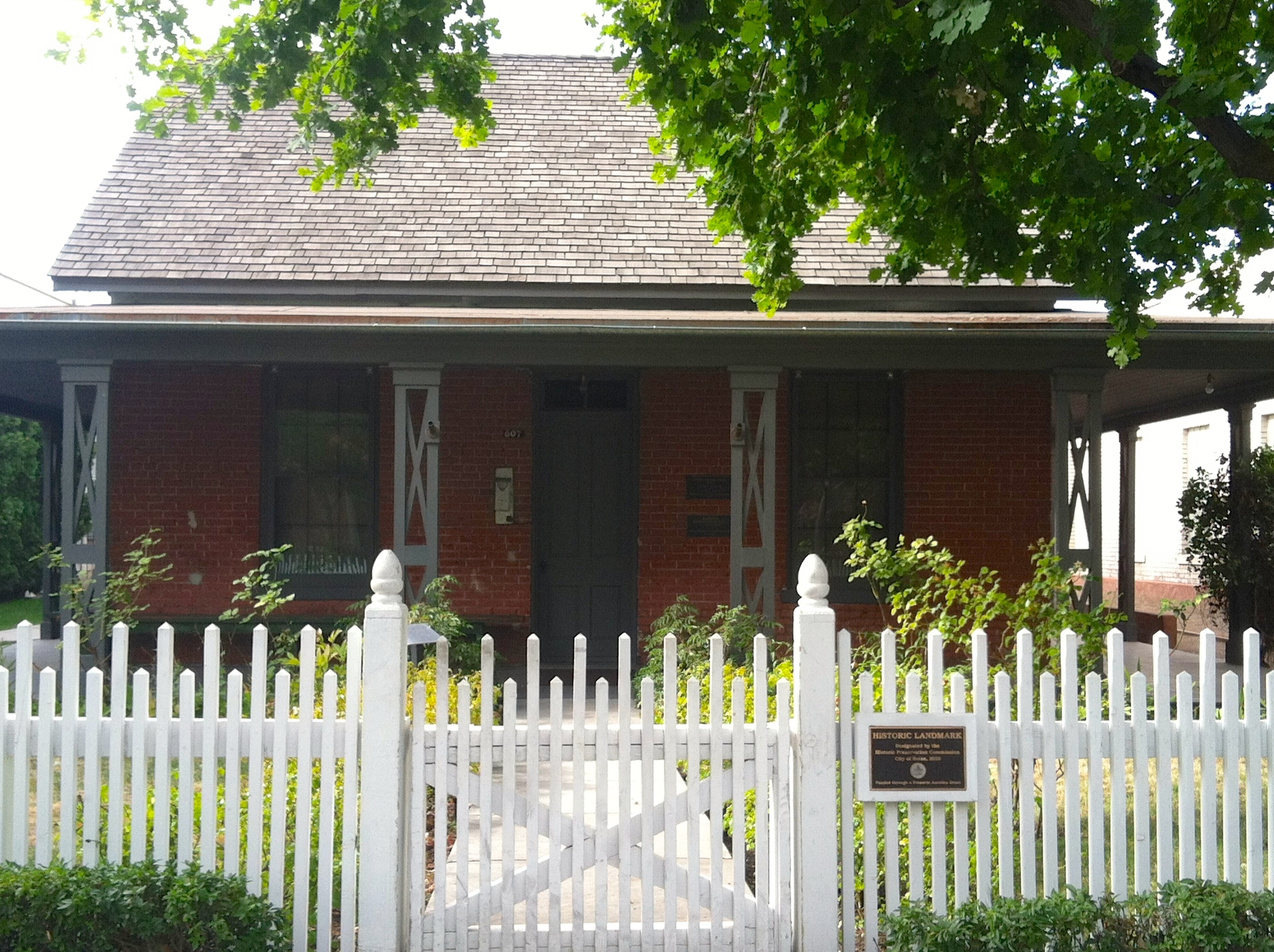 Cyrus Jacobs House, 607 Grove Street, Boise, Idaho, USA. Former boarding house for Basque immigrants.